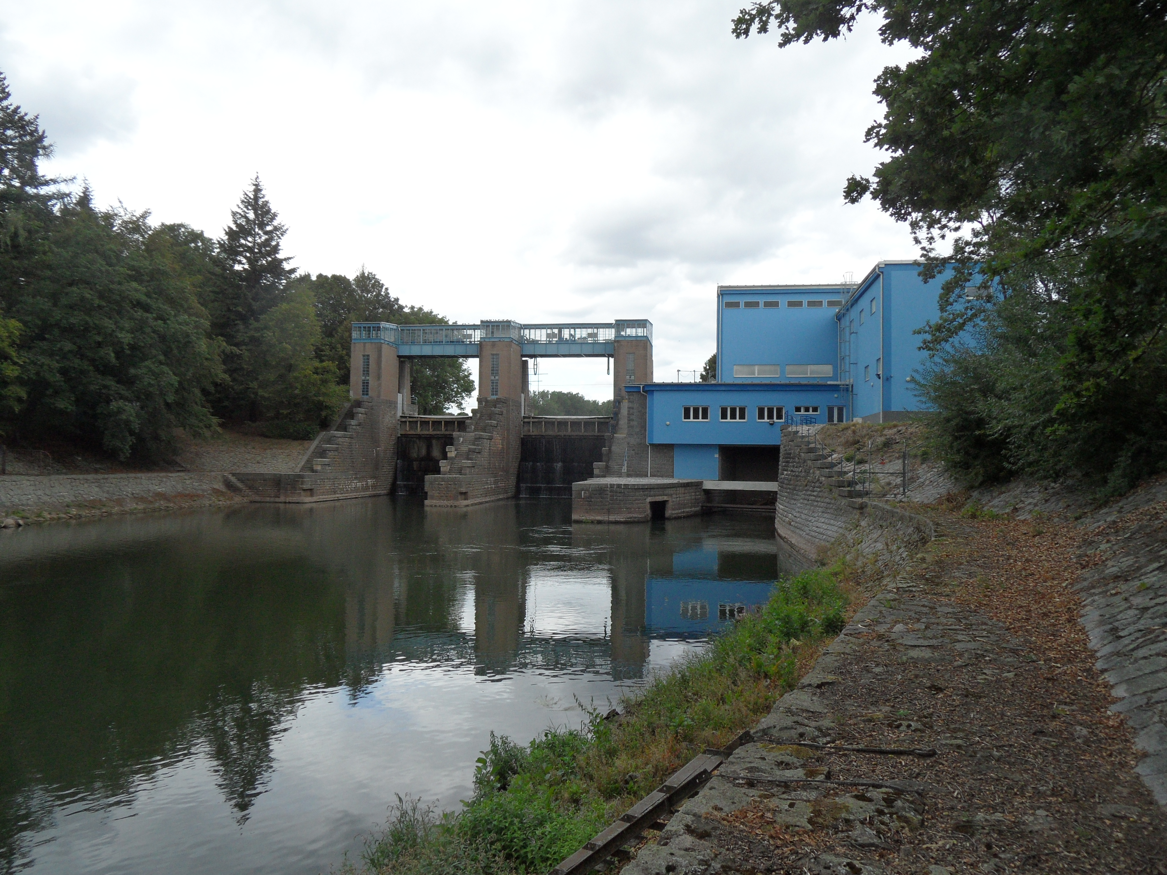 Weir Smiřice A. Lower Part, Overview from Left Bank. Hradec Králové District, the Czech Republic.